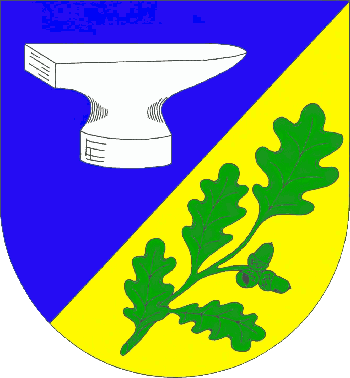 Coat of arms of the municipality Jerrishoe in Schleswig-Holstein, Germany.